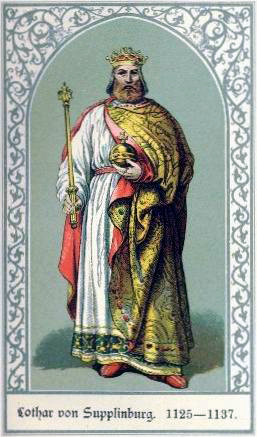 This is a scan of the historical document